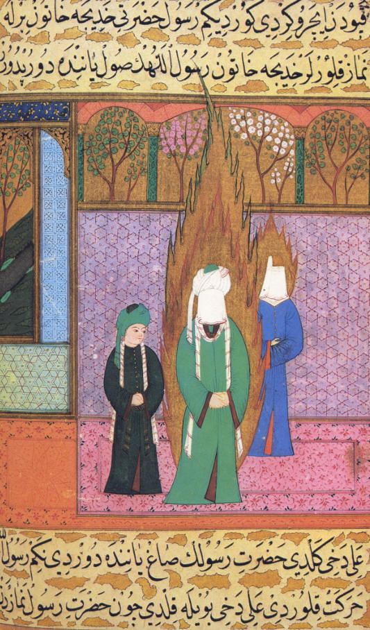 Mohammed with his daughter Fatima and son-in-law, Ali, from the 1595 illustrated edition of the Siyer-i Nebi.